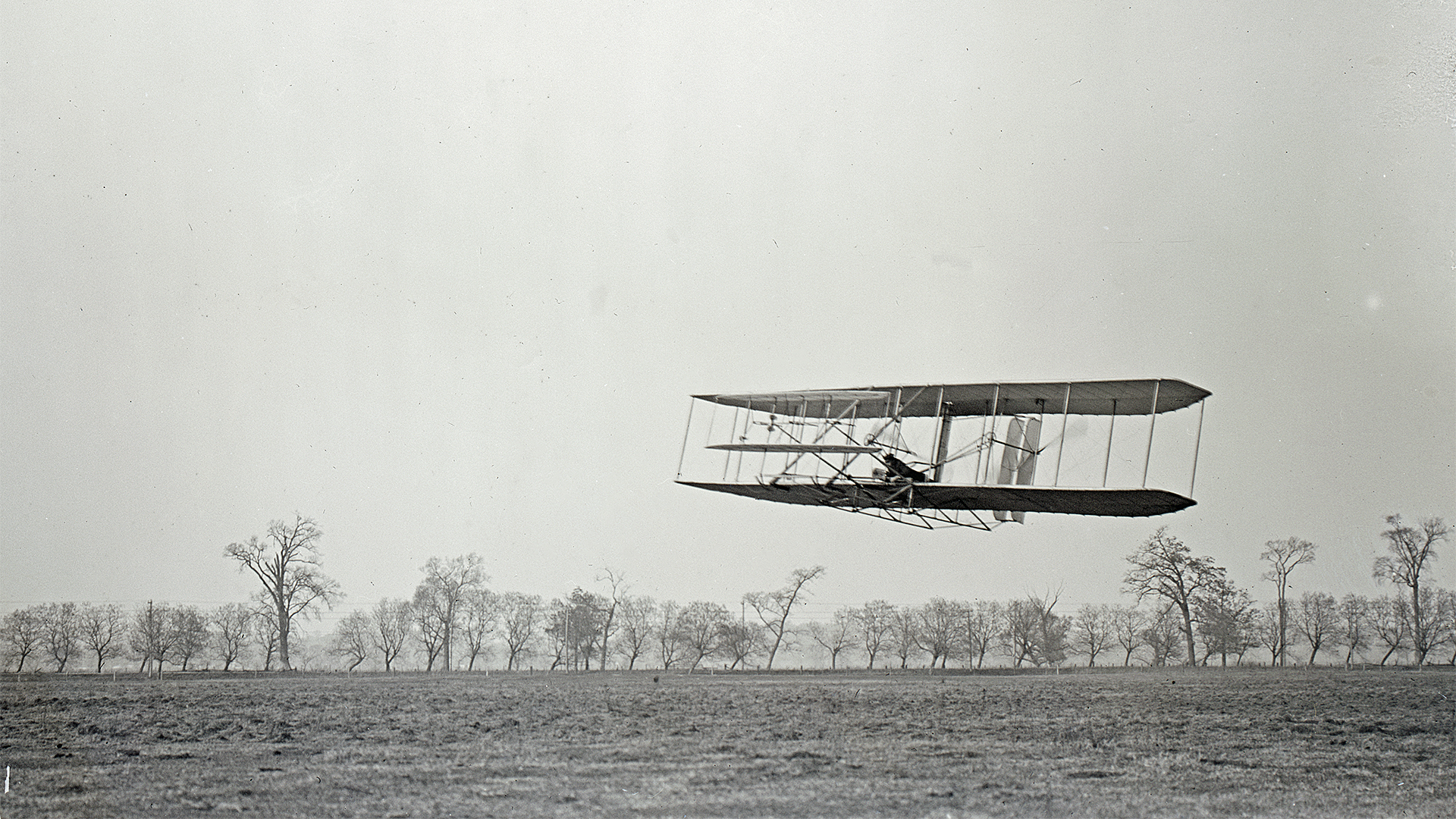 Flight 85: Orville in flight, covering a distance of approximately 1,760 feet in 40 1/5 seconds; Huffman Prairie, Dayton, Ohio.